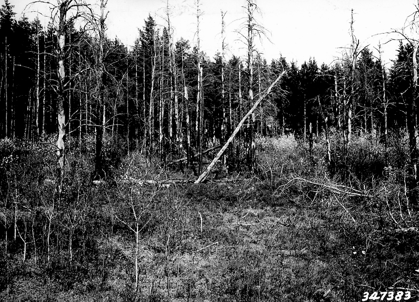 Scope and content: Original caption: Burned over jack pine stand. Portion of the original stand may be seen in background.